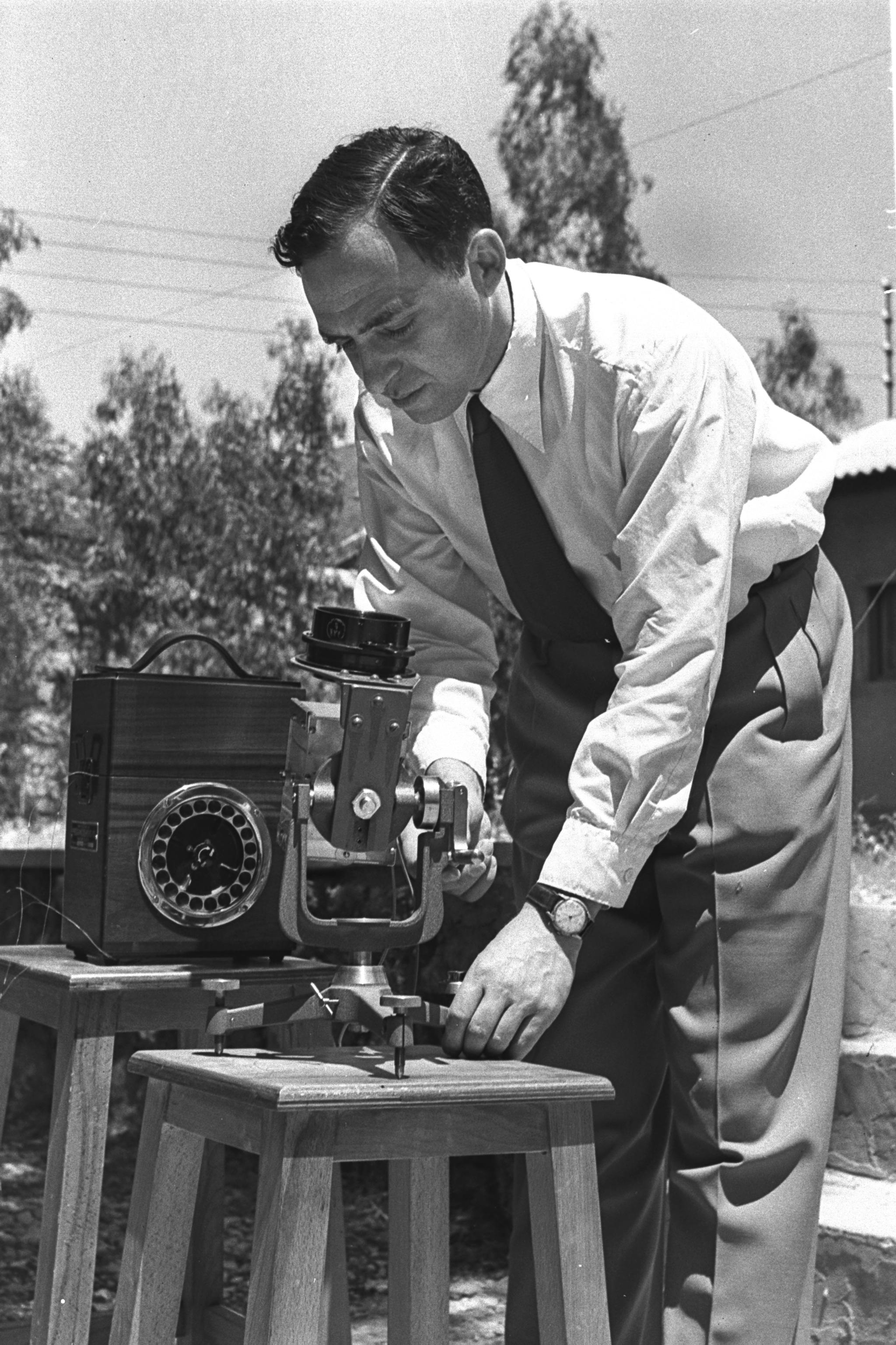 Original Description: DR. ZVI TABOR OF THE HEBREW UNIVERSITY, WITH HIS INVENTION OF SOLAR ENERGY TRAP THAT ABSORBS SUN RAYS & CONVERTS THEM INTO HEAT.